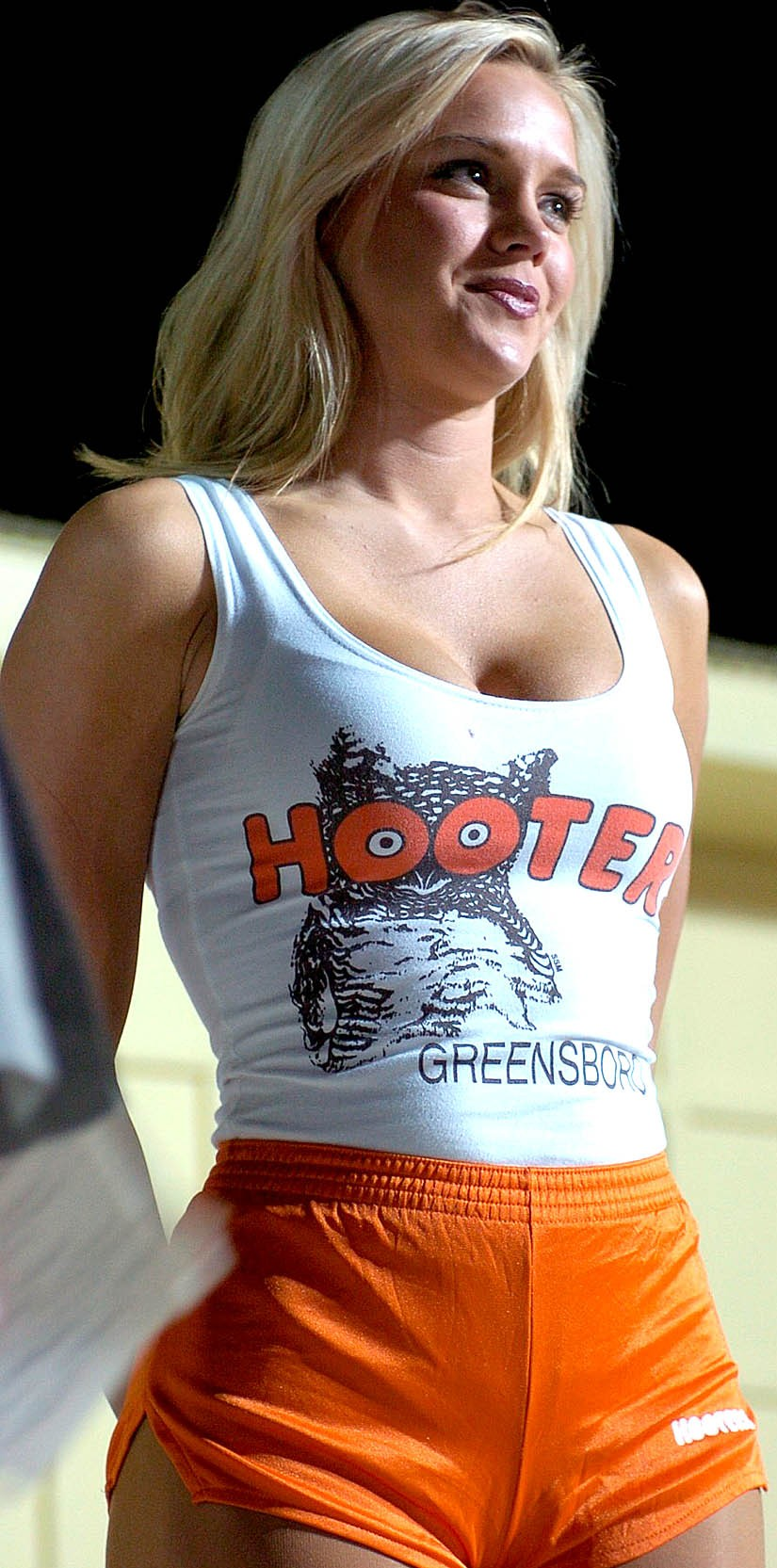 Hooters Calendar Girl Melissa Poe gives one of the Top Ten Things you will never hear a Hooters Girl say. Poe was part of the Operation Let Freedom Wing tour that arrived in Kandahar Airfield, Afghanistan